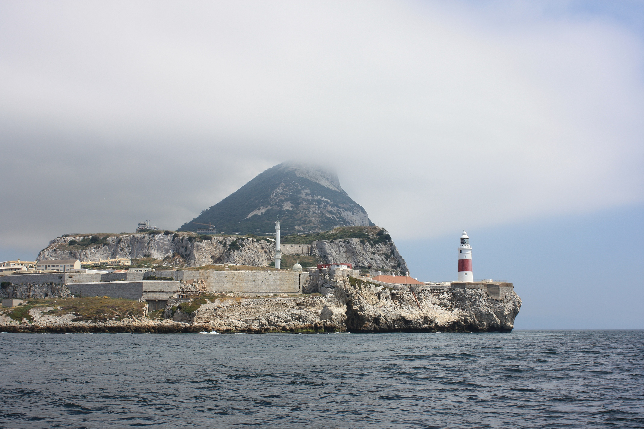 Levante cloud over the rock of Gibraltar with prevailing easterly wind; seen from the south off Europa Point.